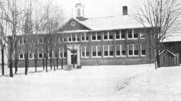 Image of Bath School before the bombing.